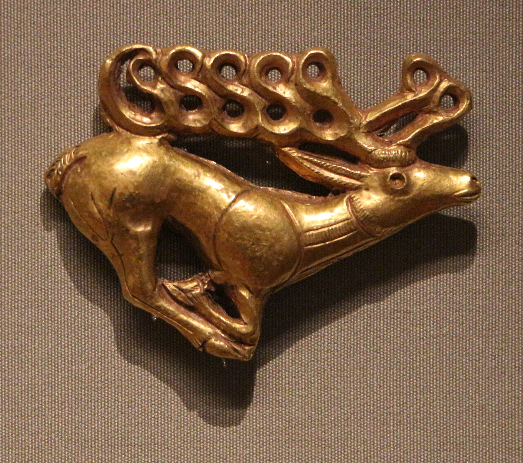 Asian art in the Cleveland Museum of Art